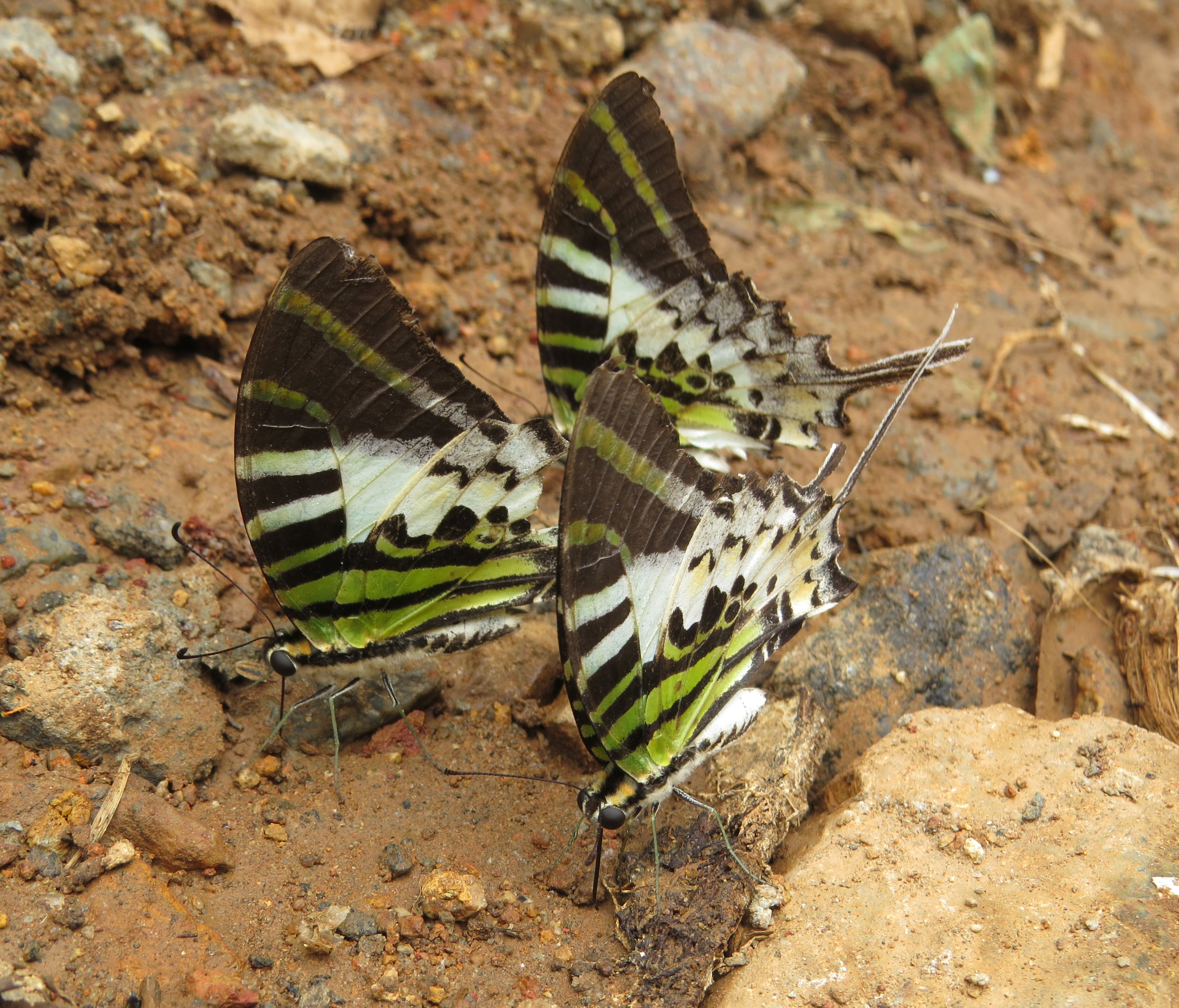 Graphium antiphates - Five-bar Swordtail